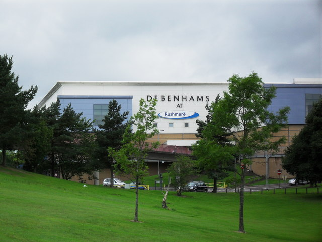 Debenhams, Craigavon An anchor tenant at Rushmere Shopping - once known and still referred to as the Craigavon Shopping Centre.